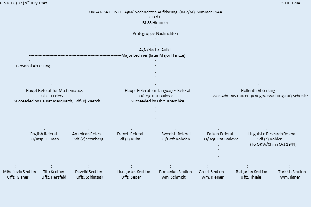 Organization chart of German AgN/NA Sig Int organizations during Summer 1944.